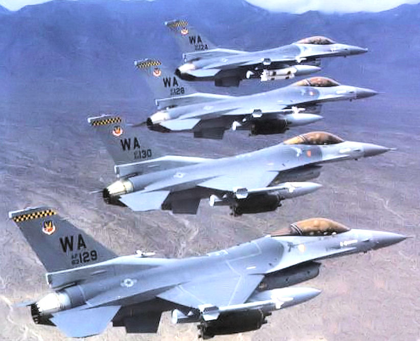 414th Composite Training Squadron - 1992 formation